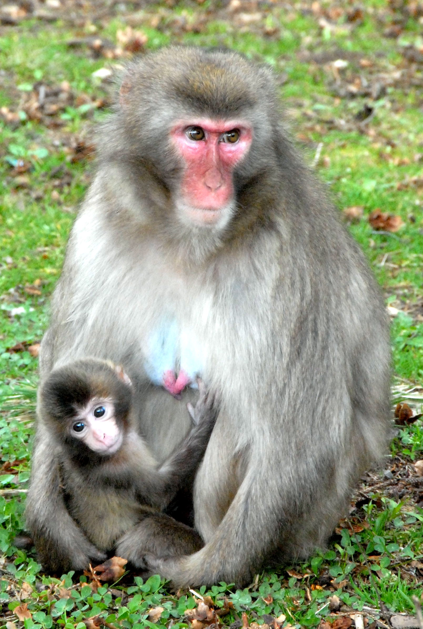 Female makak-monkey with baby at Affenberg, community of Landskron, Carinthia, Austria